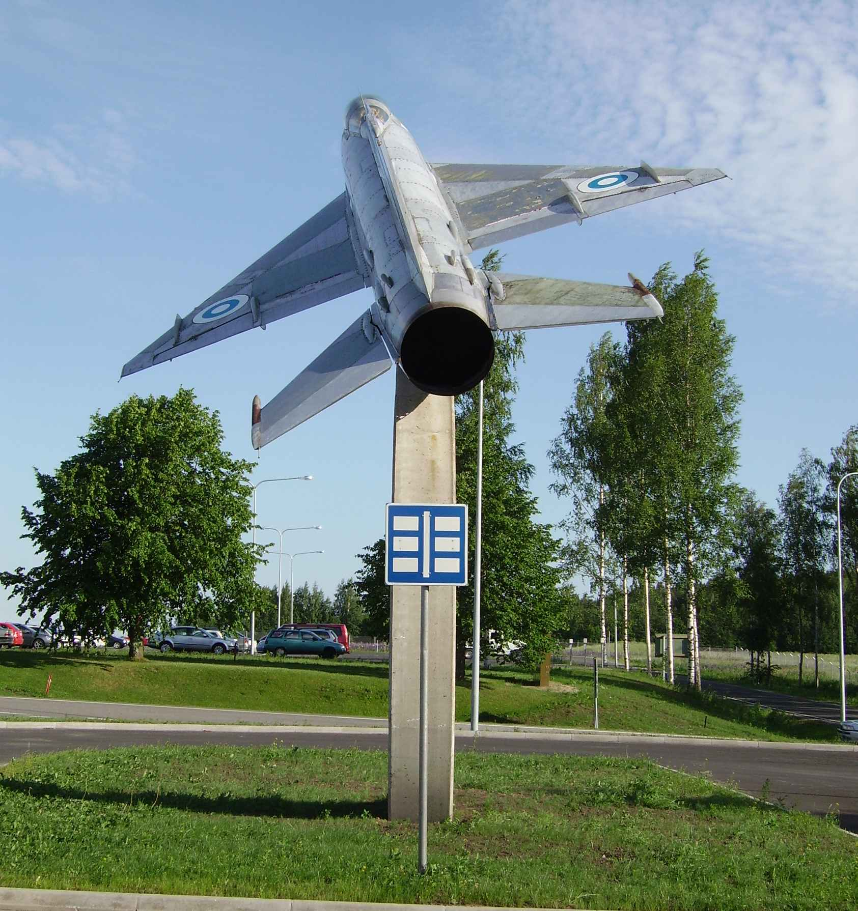 A former Finnish Air Force MiG-21F fighter as a memorial at Kuopio Airport